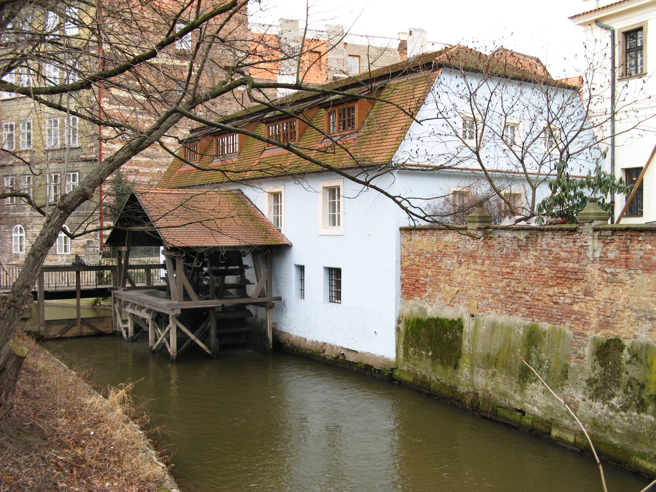 Huť Mill